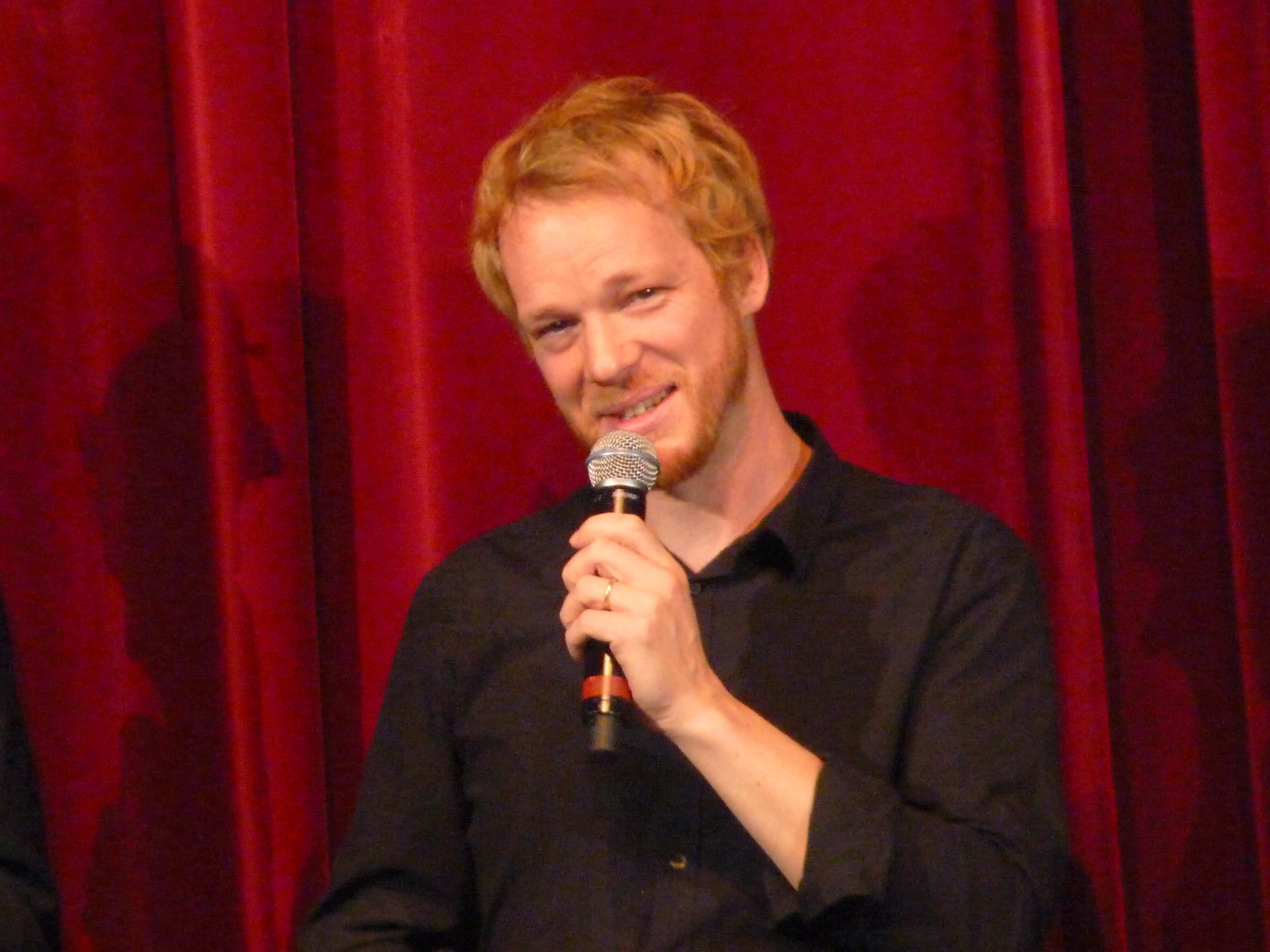 Martin Le Gall in Cannes during the 2014 Tous en short festival.